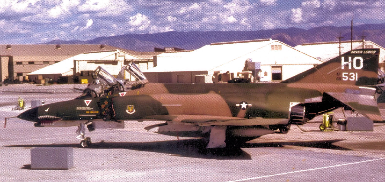 20th Tactical Fighter Training Squadron McDonnell Douglas F-4E-41-MC Phantom 68-0531 Holloman Air Force Base, New Mexico 1992. Repainted in Southeast Asia camouflage motif along with a "shark mouth" and five MiG kill markings to commemorate the 20th anniversary of Captain Steve Richie becoming a USAF Ace during the Vietnam War. Retired to AMARC as FP1059 Oct 22, 1997. Still on AMARC inventory Jan 15, 2008